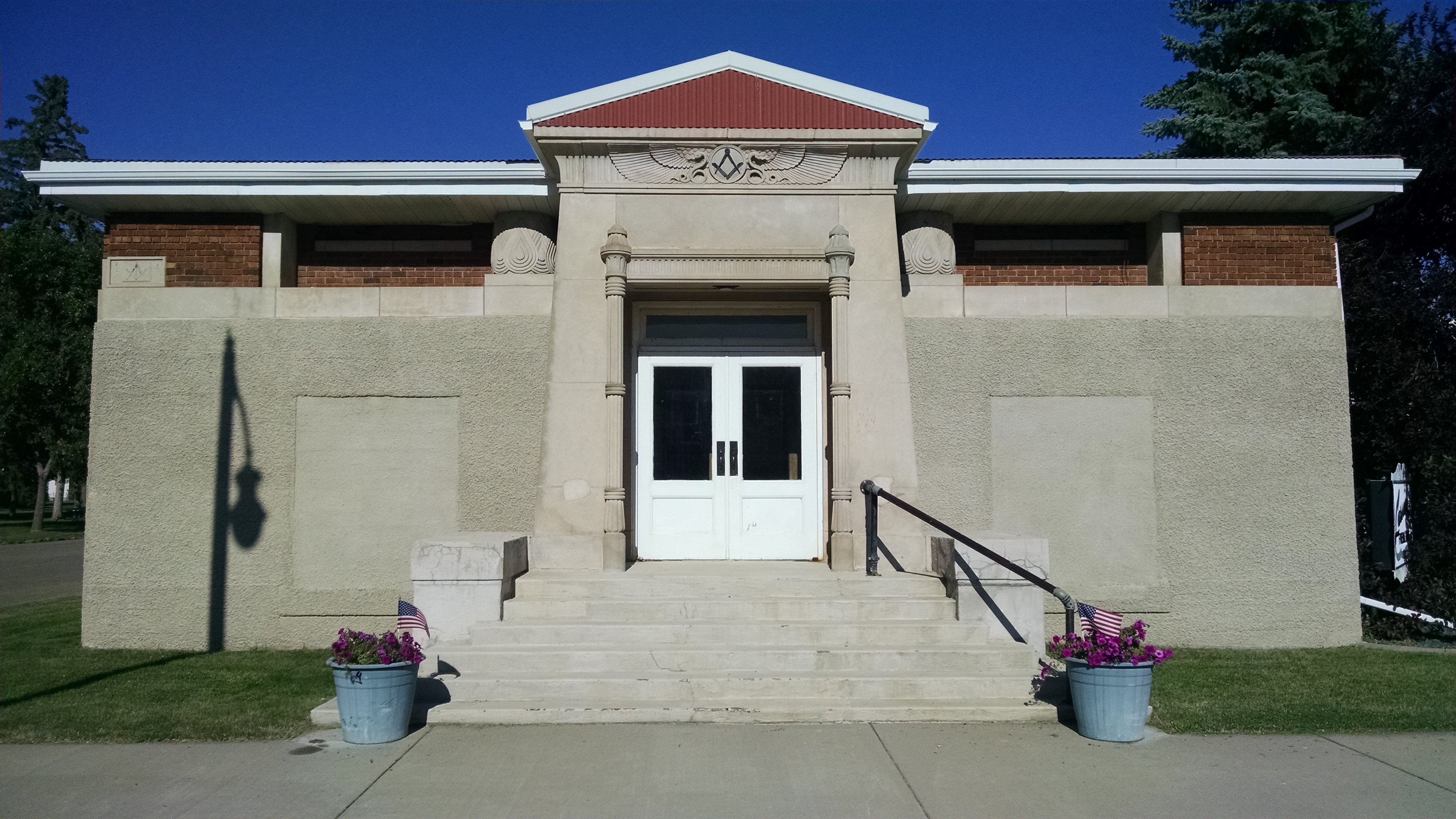 Front view of the Mobridge Masonic Temple in Mobridge, South Dakota, on 06/30/2016.